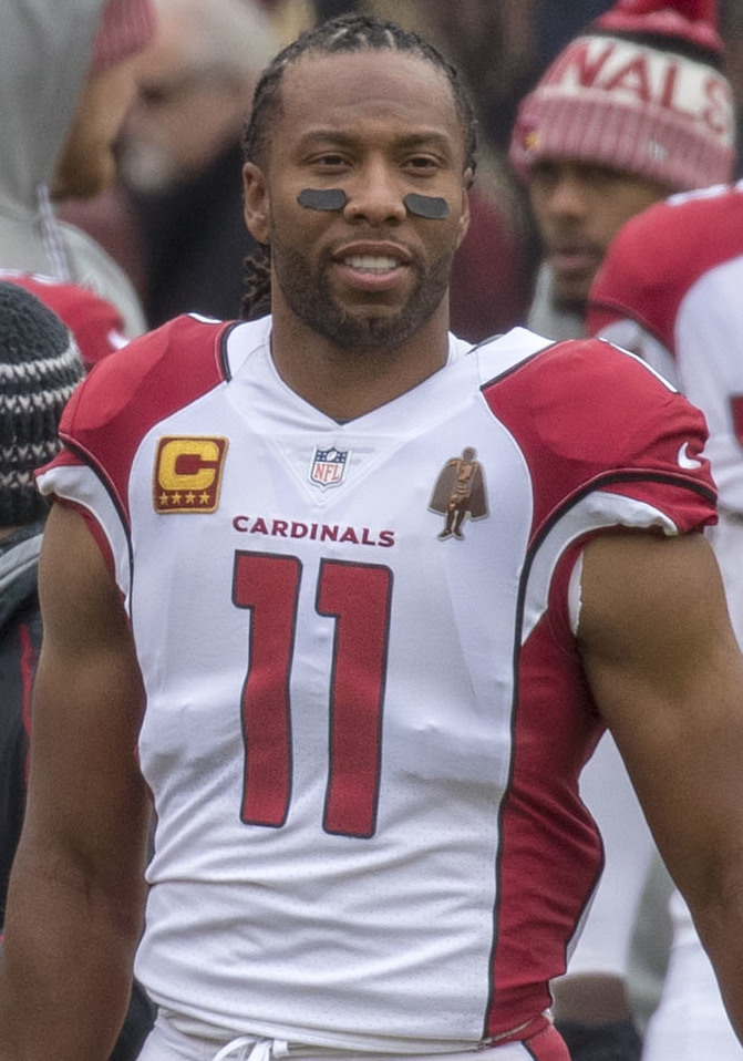 Cardinals at Redskins 12/17/17